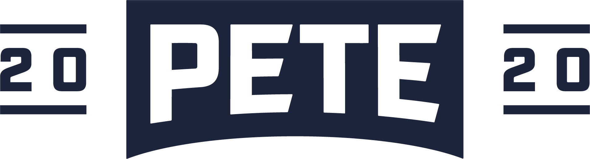 Official logo of Pete for America, the 2020 presidential campaign of Pete Buttigieg.